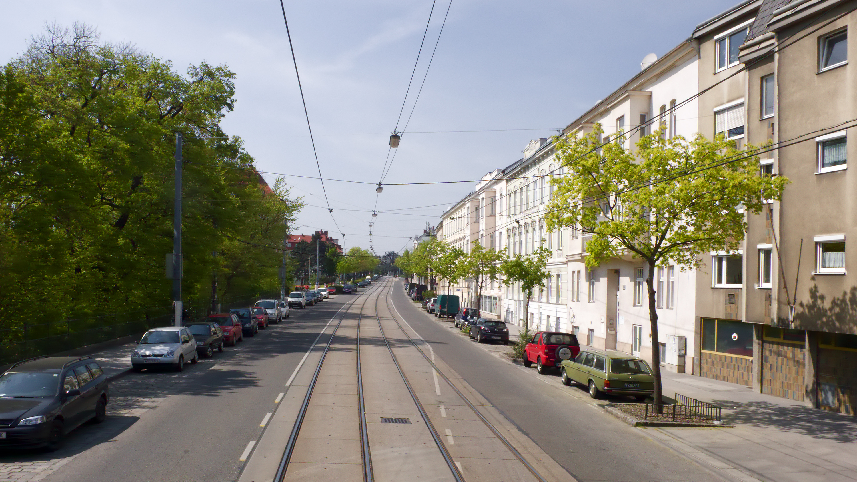 Linzer Straße near Nr. 357 in Vienna Penzing